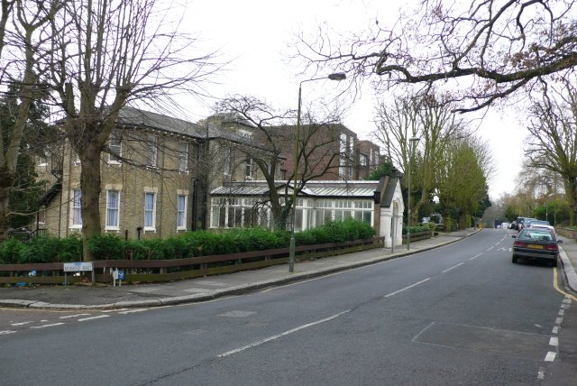 Society of African Missions, Lyonsdown, East Barnet The large house on the left houses the Society of African Missions. The house is described as SMA House on the door plaque as the latin name for the society is Societas Missionum ad Afros